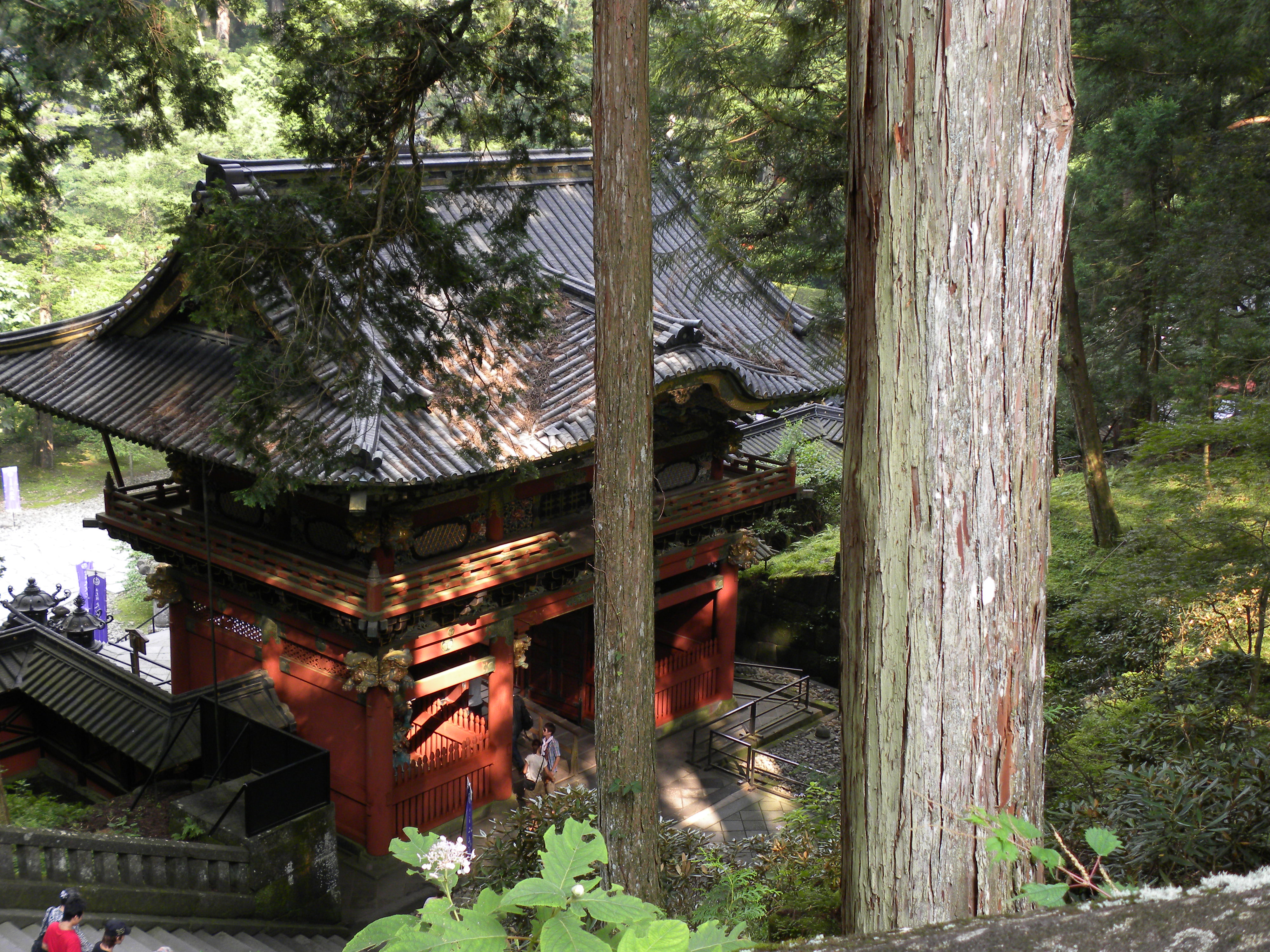 Nitenmon gate of Taiyuin mausoleum, Nikko, Japan